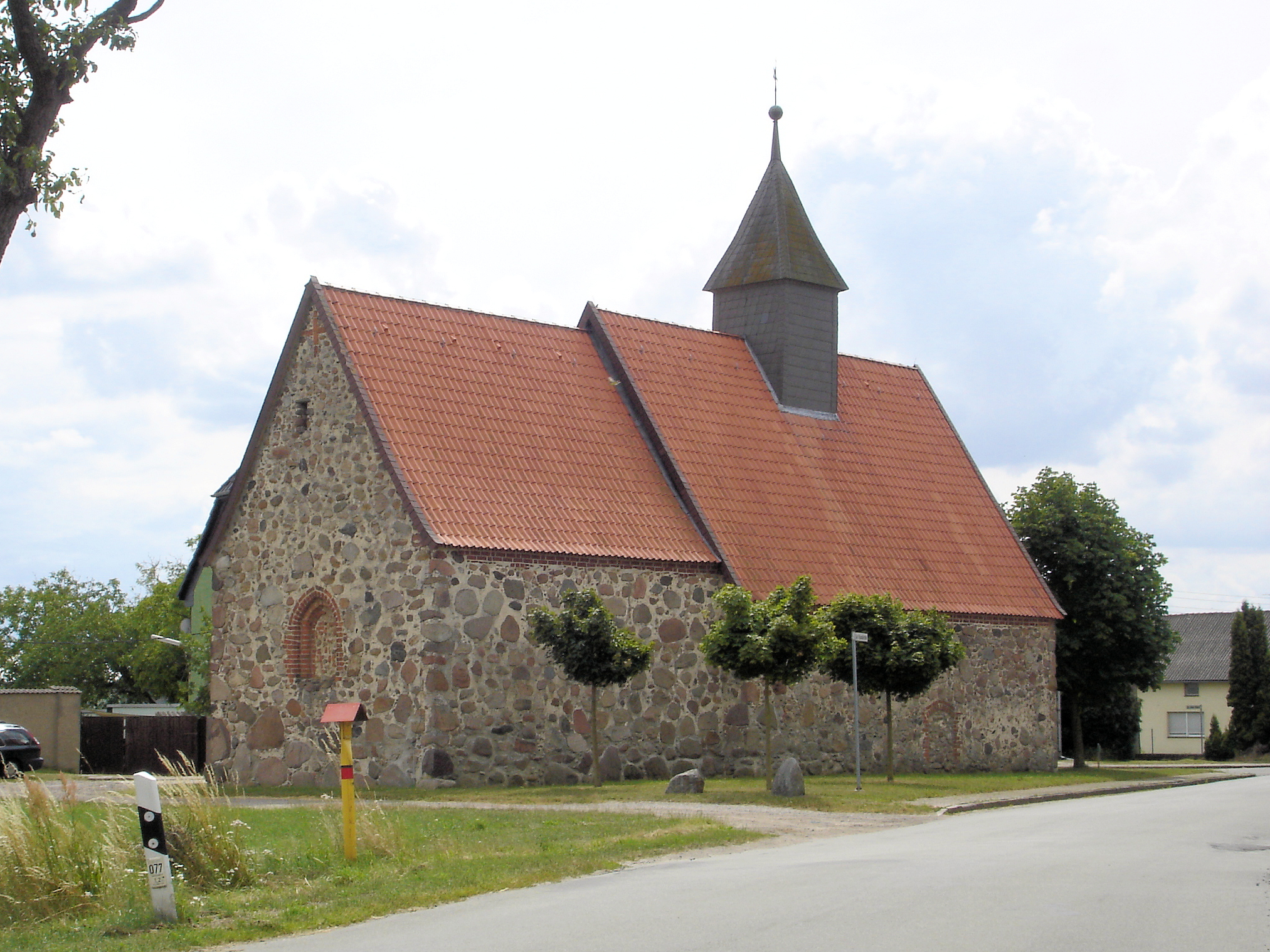 Hermitage-church in Stappenbeck, Saxony-Anhalt, Germany